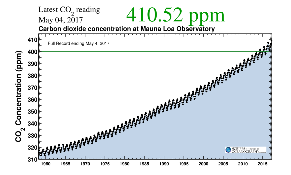 The Keeling Curve 1958-2017